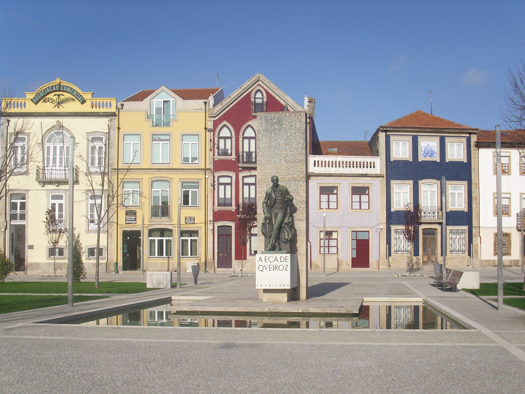 Almada Square, Póvoa de Varzim, Portugal, Statue to Eça de Queiroz offered by te city's imigrants in Rio de Janeiro, Brazil.